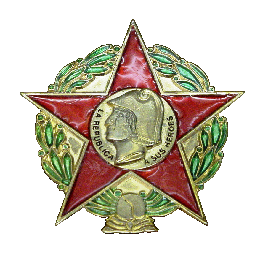 Laureate Plate of Madrid. Highest award to honor those who fought for the Second Spanish Republic during the Civil War (1936-1939)